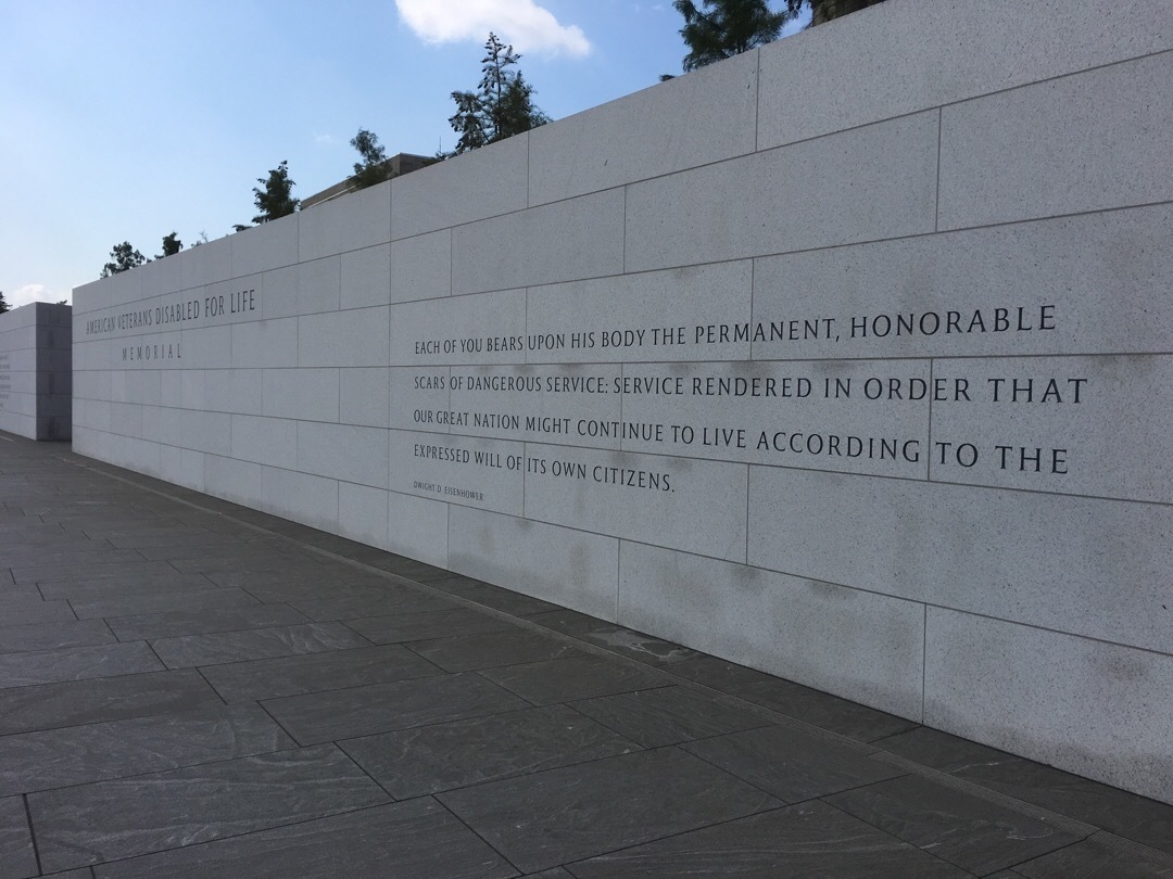 A white stone wall with a quote on it "Each of you bears upon his body the permanent, honarable scars of dangerous service: Service rendered in order that our great nation might continue to live according to the expressed will of its own citizens." - Dwight Eisenhower American Veterans Disabled for Life Memorial Keywords: nps; national park service; nama; national mall and memorial parks; memorial; american veterans disabled for life memorial; dc; district of columbia; washington